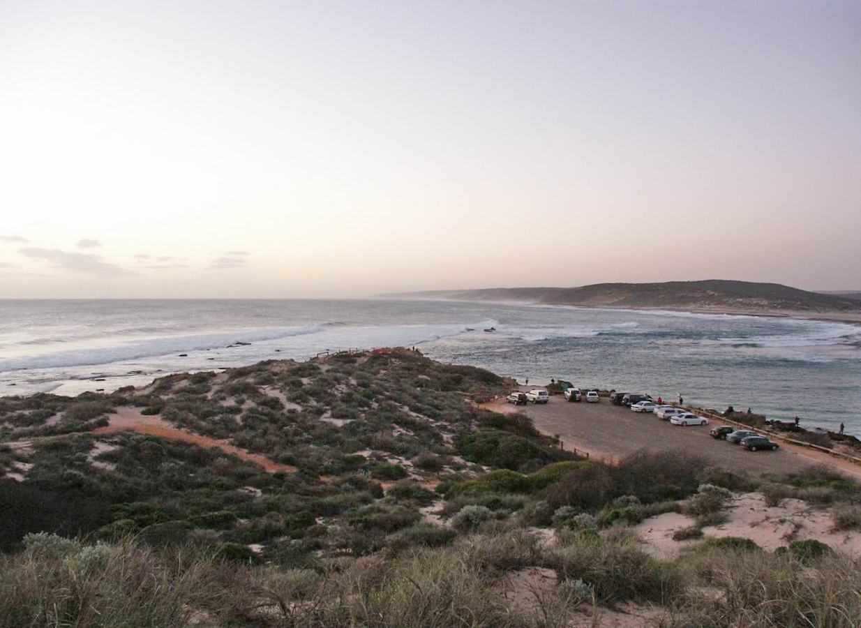 Kalbarri, Western Australia river mouth at sunset.